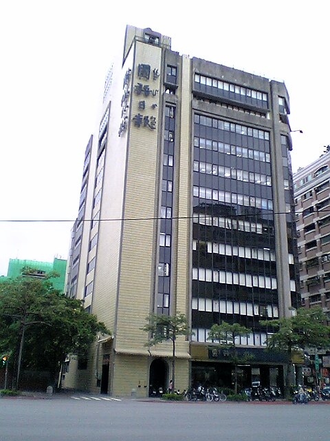 Mandarin Daily News building. 國語日報社大樓。 Photo by Tsubasa 2006 June 28.